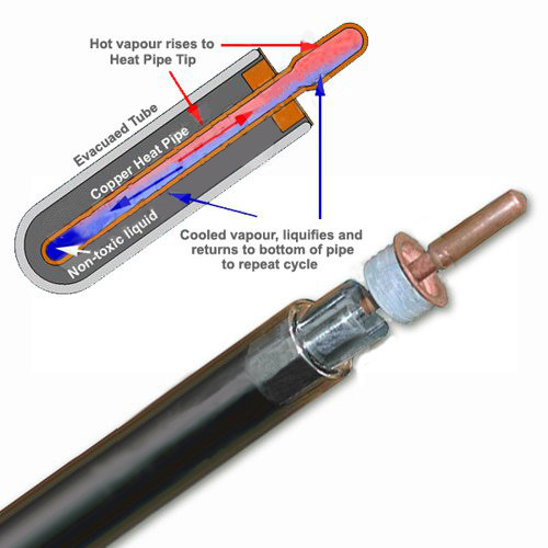 Evacuated_tube_diagram.jpg (500 × 500 pixel, file size: 86 KB, MIME type: image/jpeg) This photo provided by user name ilijanasov on